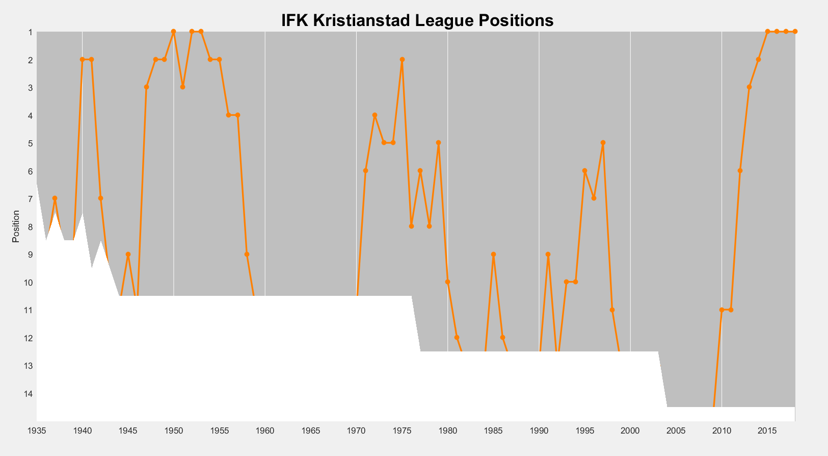 IFK Kristianstad top-flight positions from 1936 until 2018. The grey area denotes the number of teams in the top division. For split seasons, the autumn positions are shown when the team did not play in the top division in the spring season.